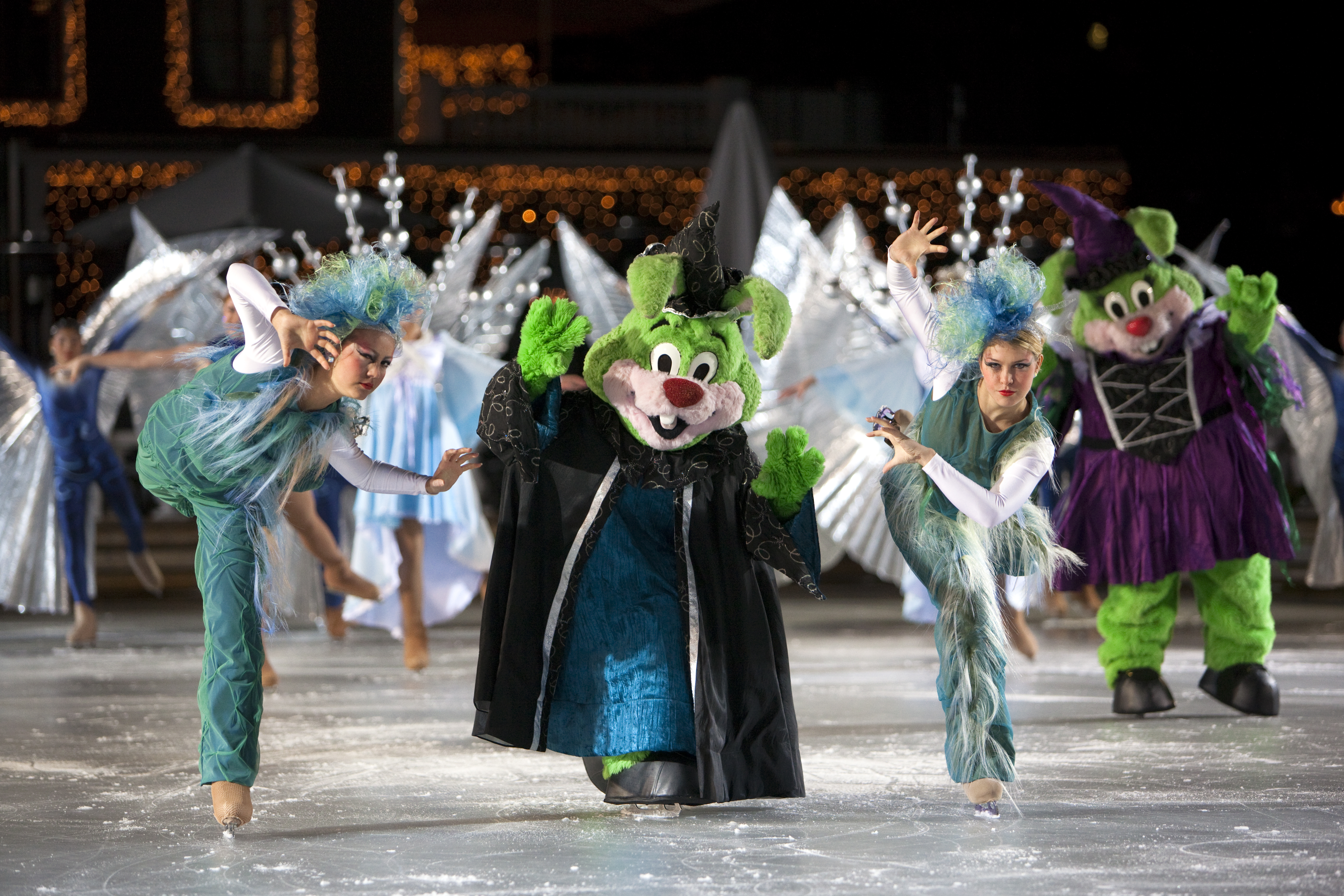 Ice show Vintervirvlar at Liseberg 2009